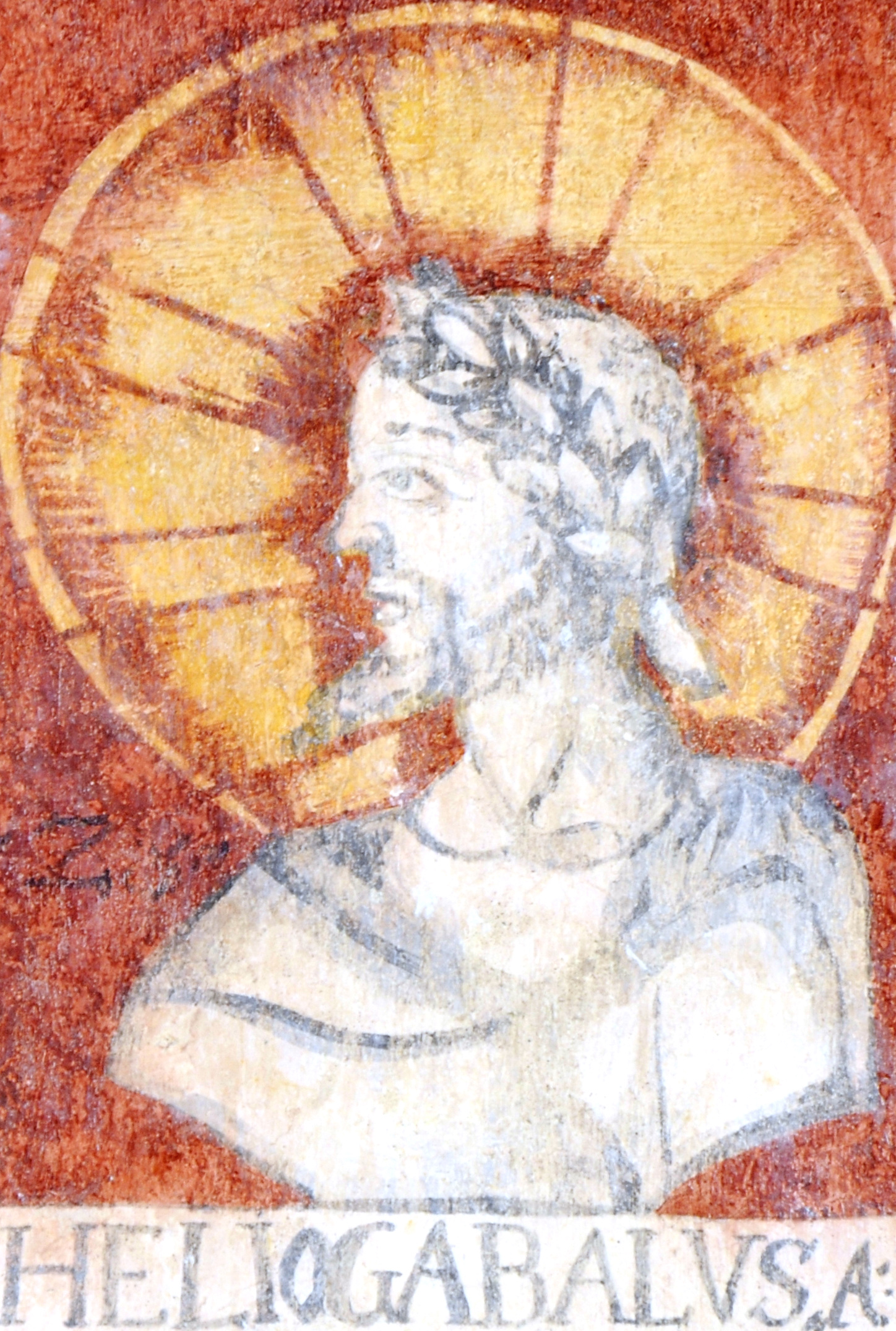 Wall painting at castle Forchtenstein (Burgenland, Austria) showing Roman emperor Elagabalus Der römische Kaiser Elagabal auf einer Wandmalerei im Innenhof des Schlosses Forchtenstein (Burgenland)